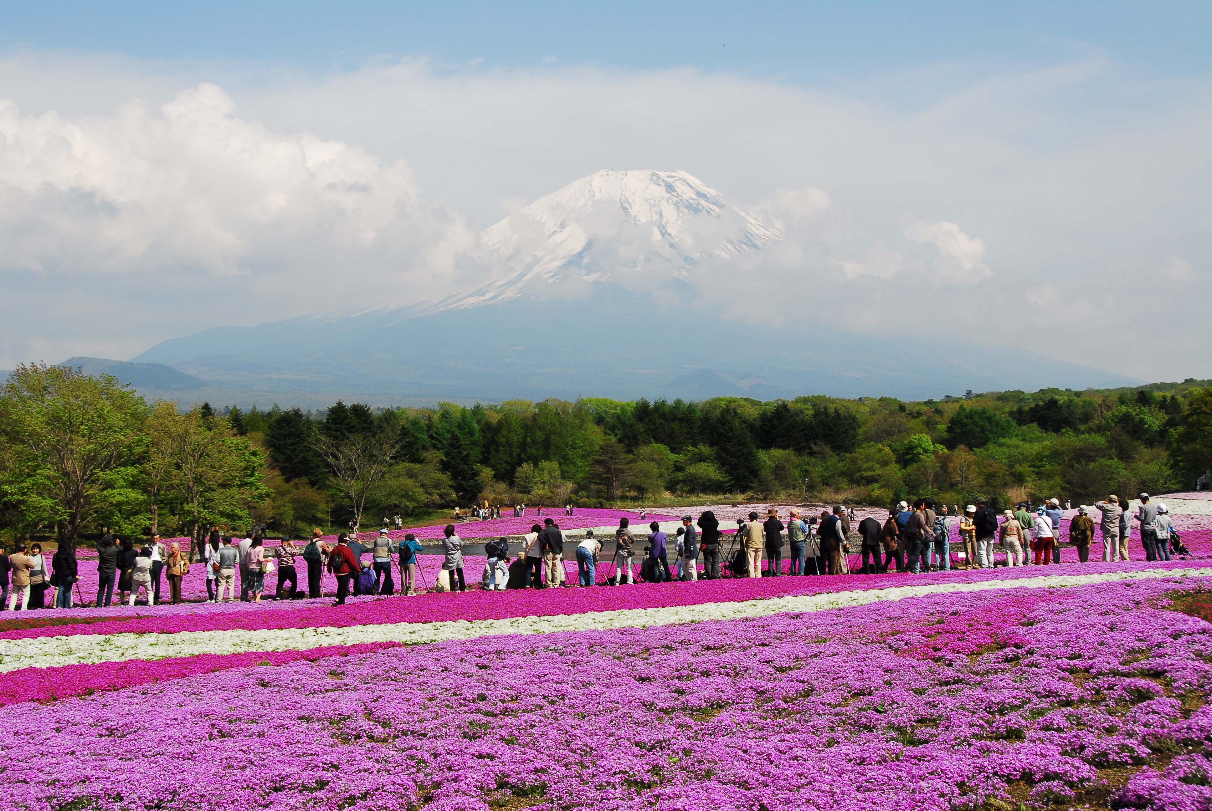 Phlox subulata and Mt. Fuji, taken on the event "Fuji-Shbazakura Festival" on 2008-05-15.